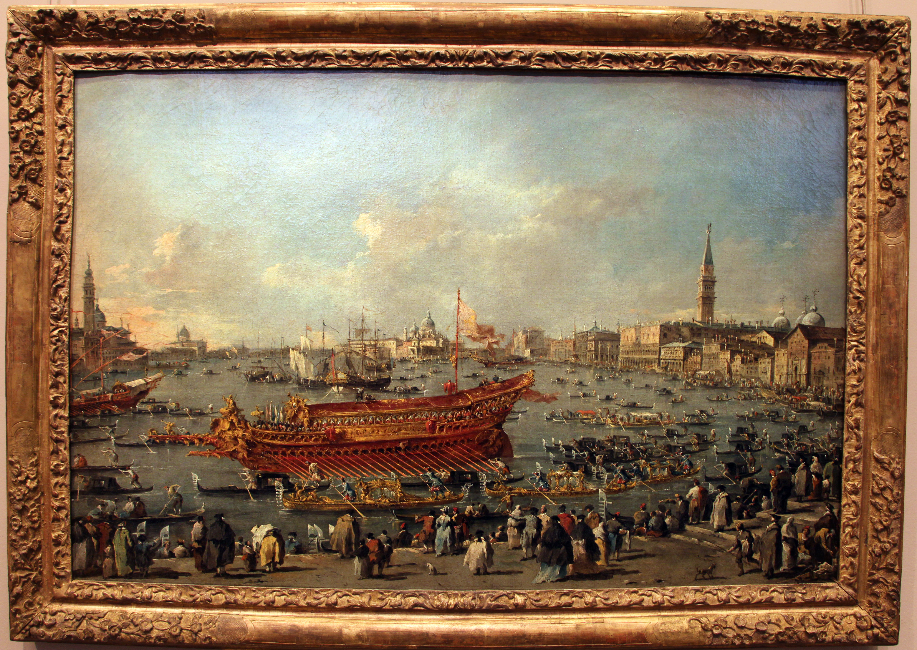 Italian paintings in the Louvre